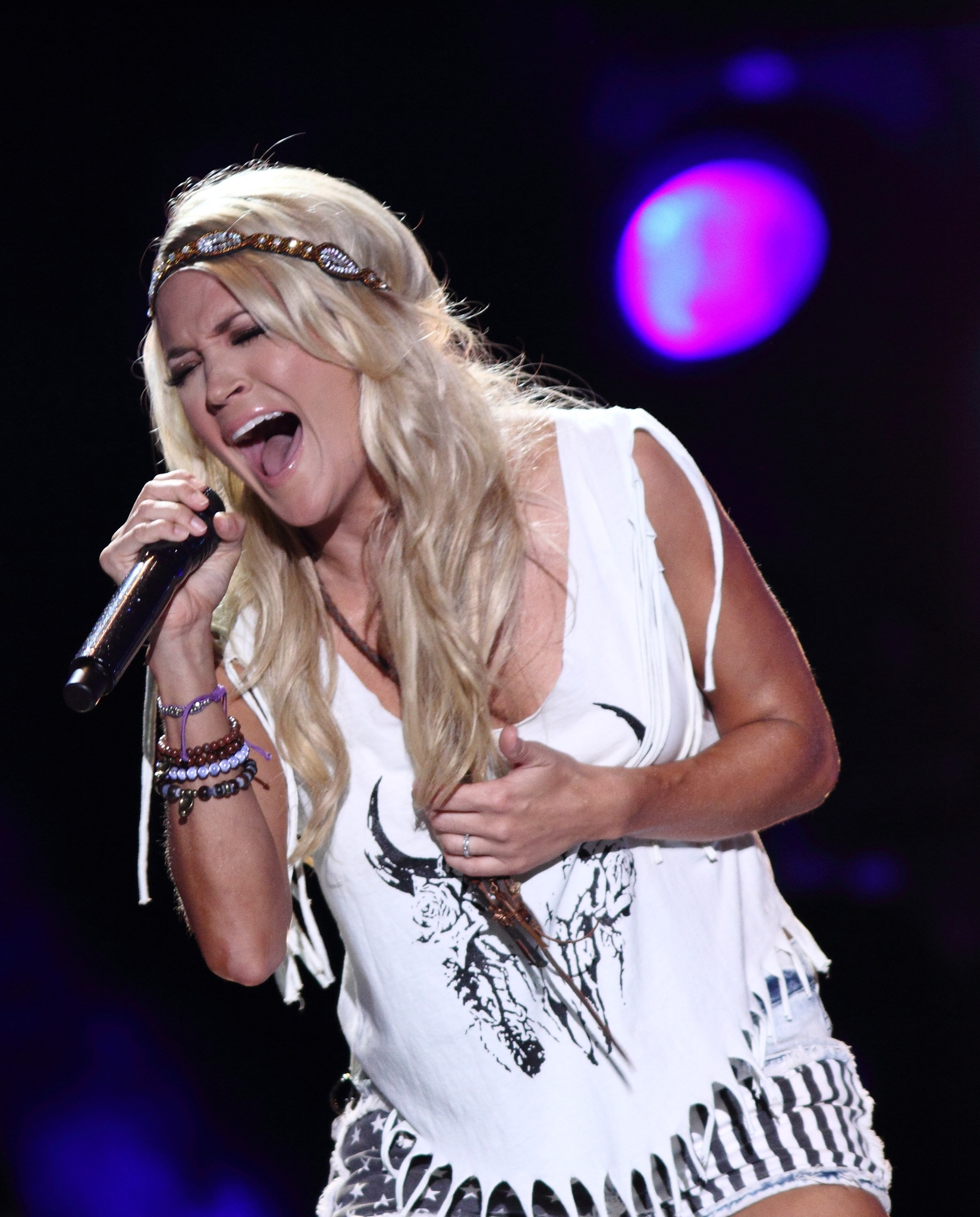 Country superstar Carrie Underwood performing on the LP Field stage during CMA Fest 2013 in Nashville, Tennessee.